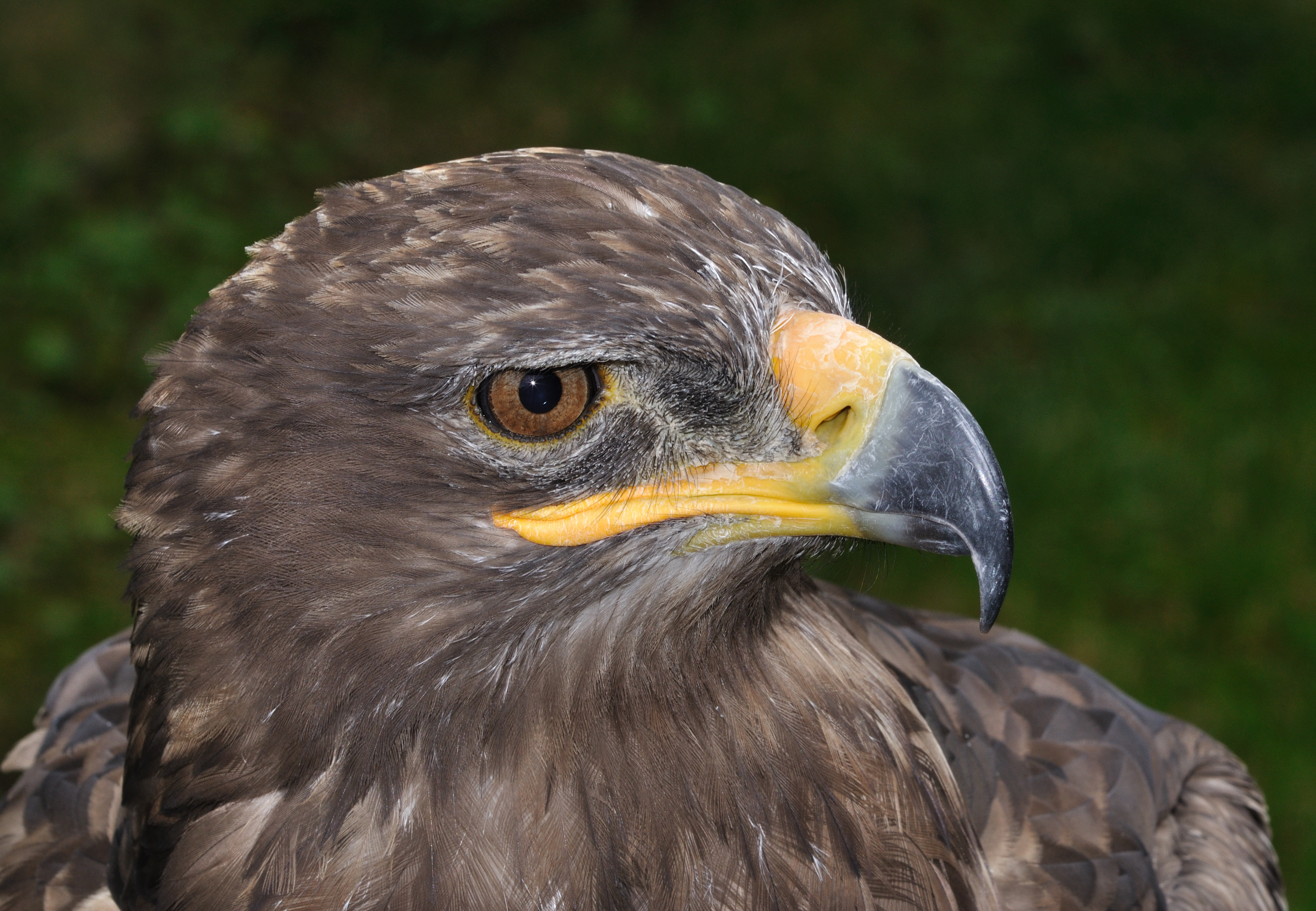 Steppe Eagle (Aquila nipalensis orientalis) in the falconry Falkenhof Feldberg, Germany.